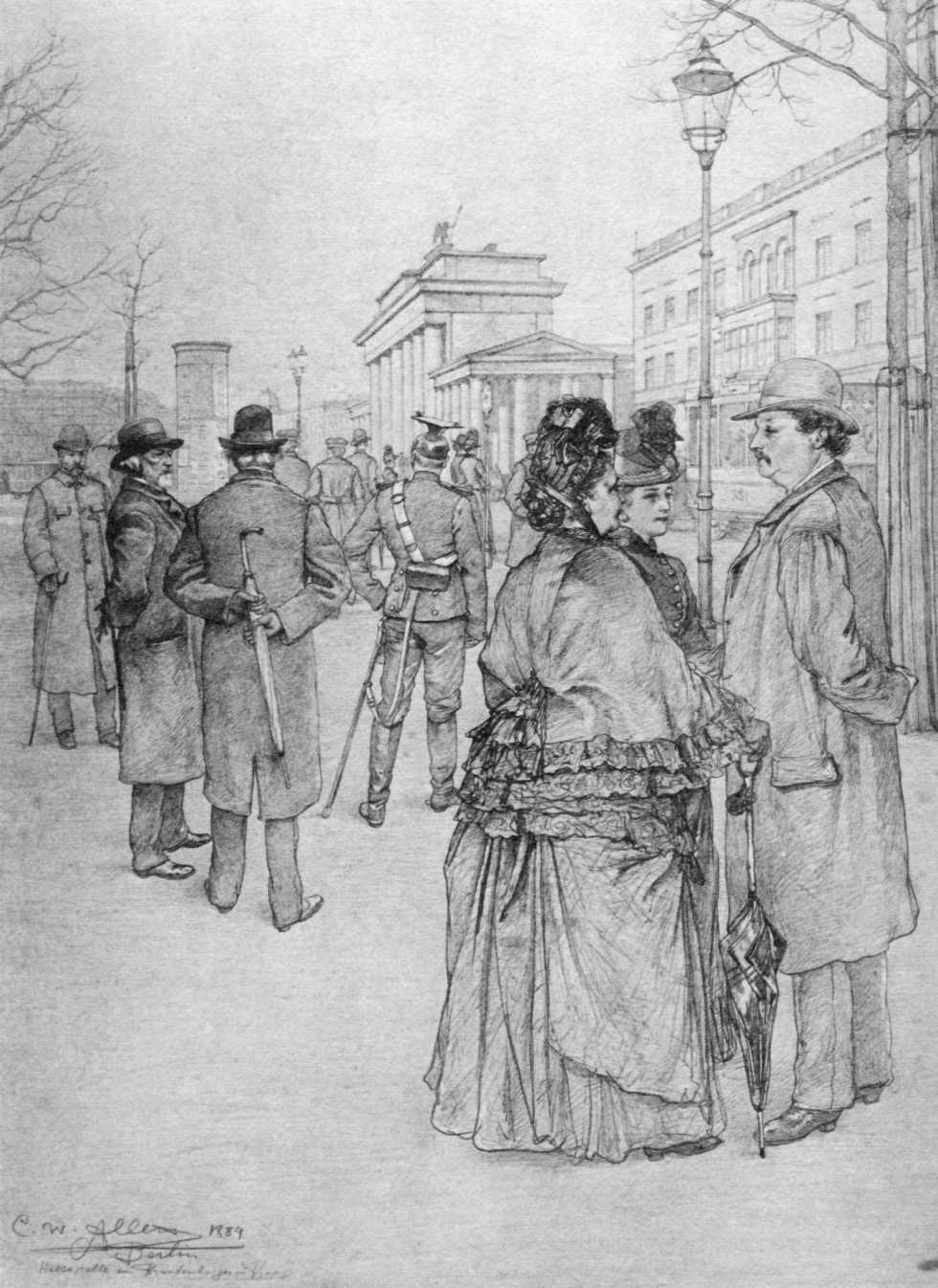 "Am Brandenburger Tor" (at the Brandenburg Gate), Berlin. Drawing showing the writer Julius Stinde together with two of his fictional characters: Frau Buchholz and her daughter [1].